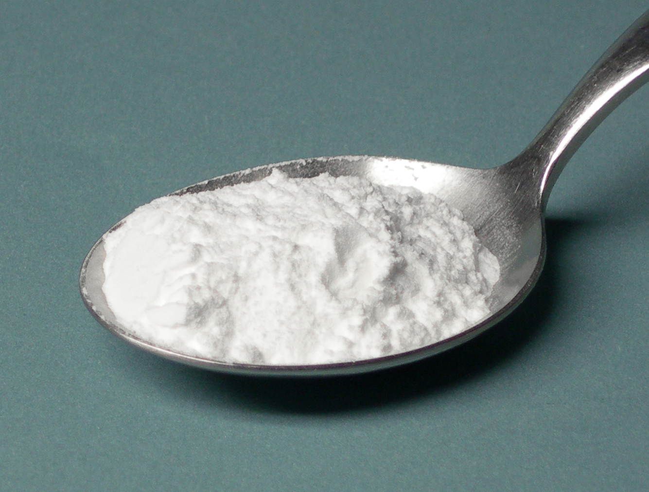 A Teaspoon with Baking powder